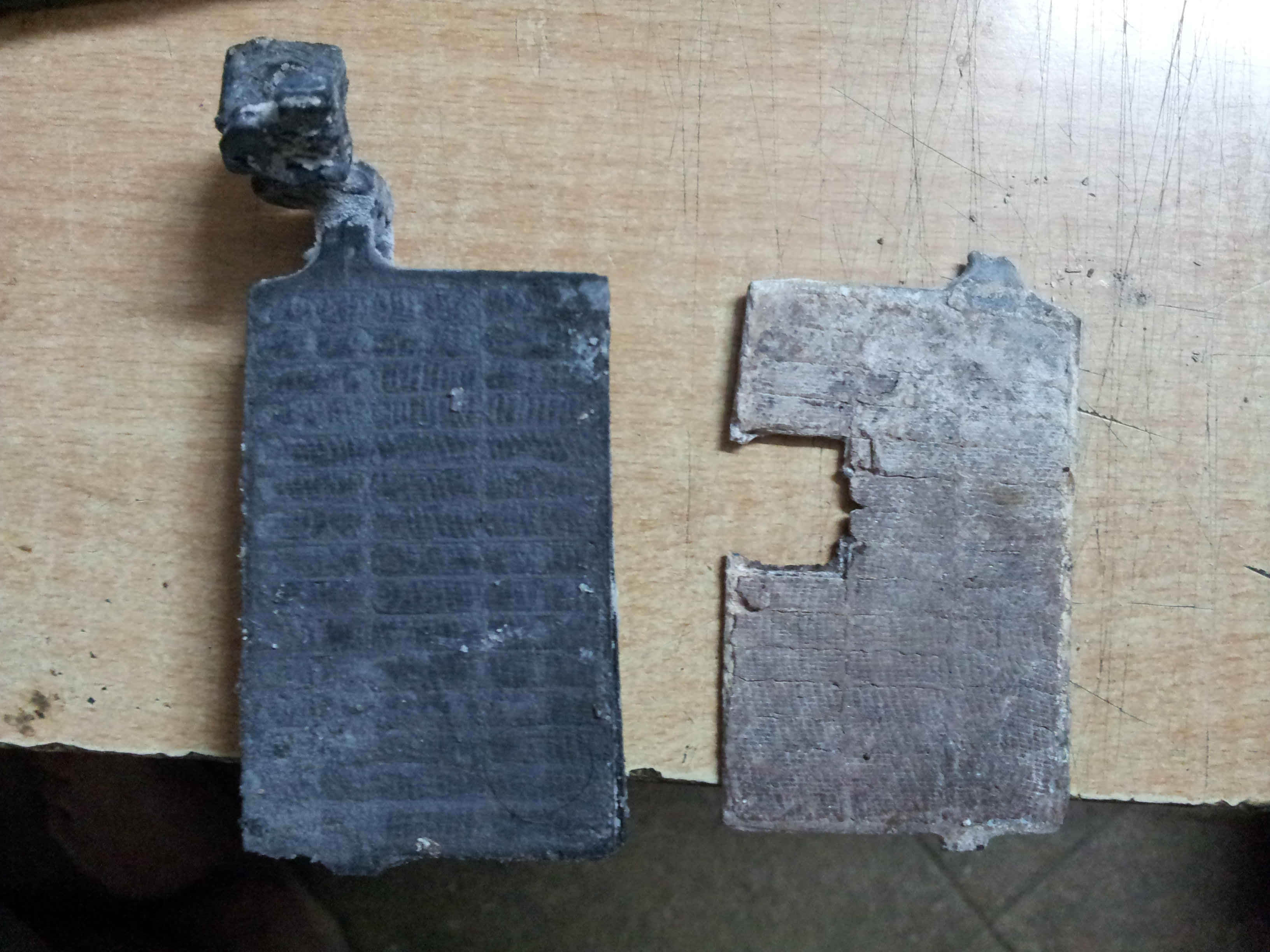 One of single Lead oxide coated plate taken out from a group of four plates from a 12v 5ah six cell two wheeler self starter battery's single cell, Sulfated Anode positive terminal plate at right side treated with EDTA , the missing square part is broken as it is fragile. Size of plate is 3"x2". Cathode Lead plate at left side